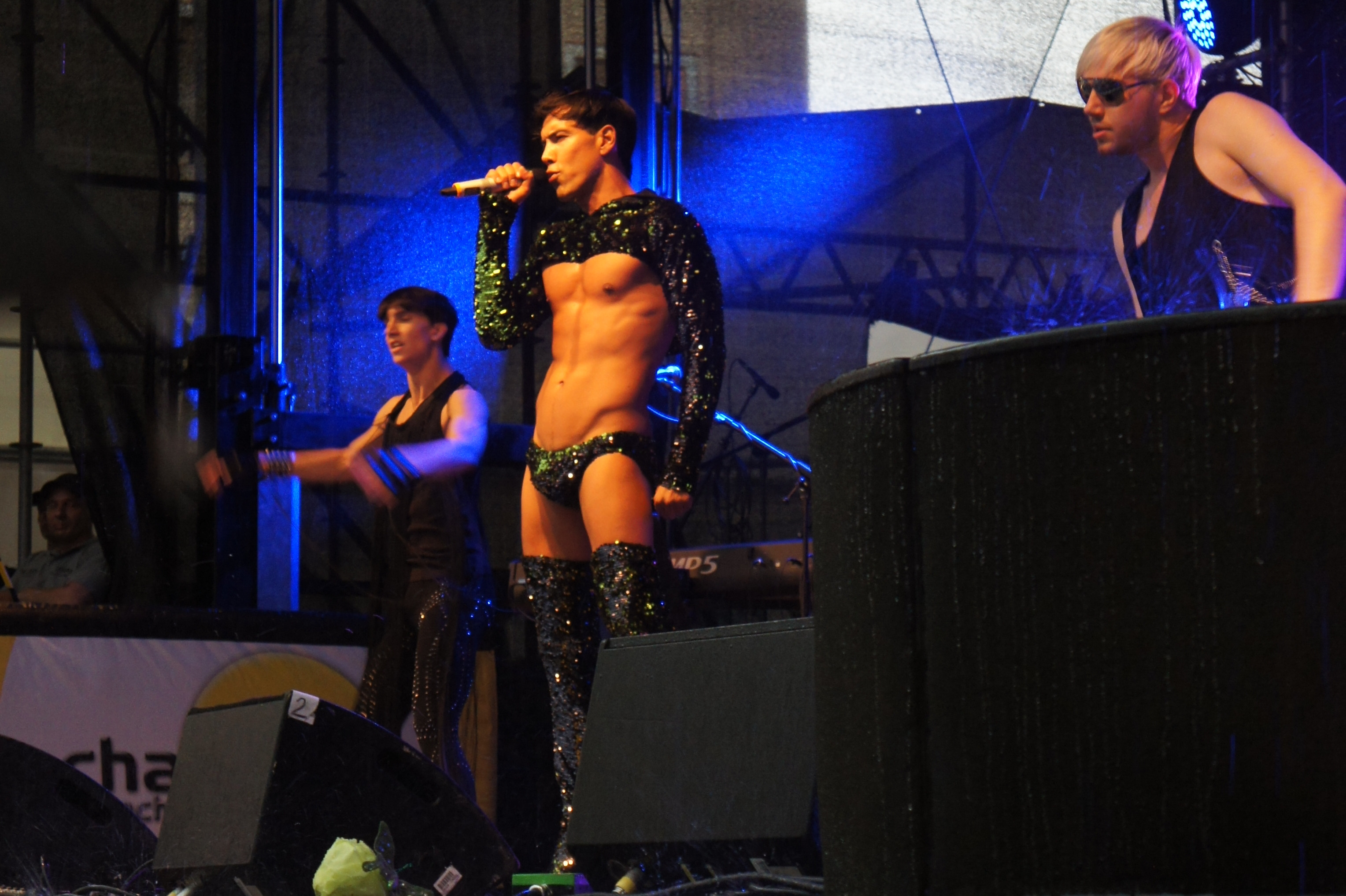 Oscar Loyas stage performance on the Marienplatz in Munich, CSD 2011.